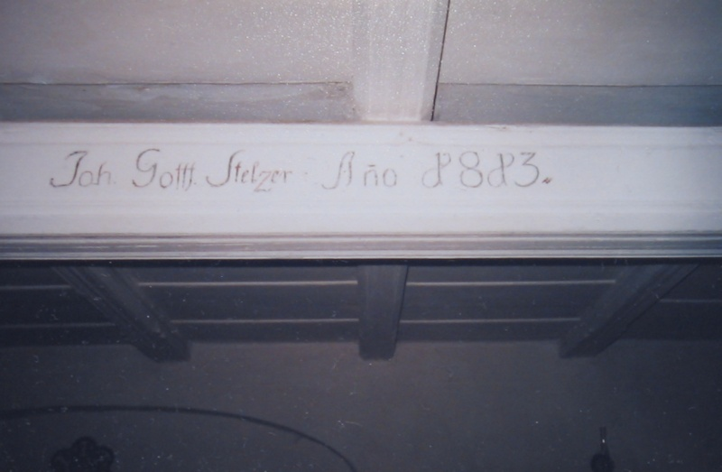 Przecznica, village in Lower Silesia (before 1945 - Querbach) rustic hut with wooden bar carrying ceiling and the notice: Joh. Gottf. Stelzer - Año 1813 photo ~1990, reproduction